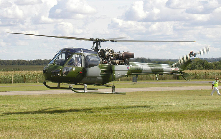 Privately-owned ex-military Westland Scout AH.1 (XV134), photographed at the Heli-Day, Kemble Airfield, England, in August 2003.